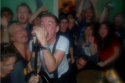 Against Me! house show on March 4th, 2009 in Gainesville, FL at the 1231house